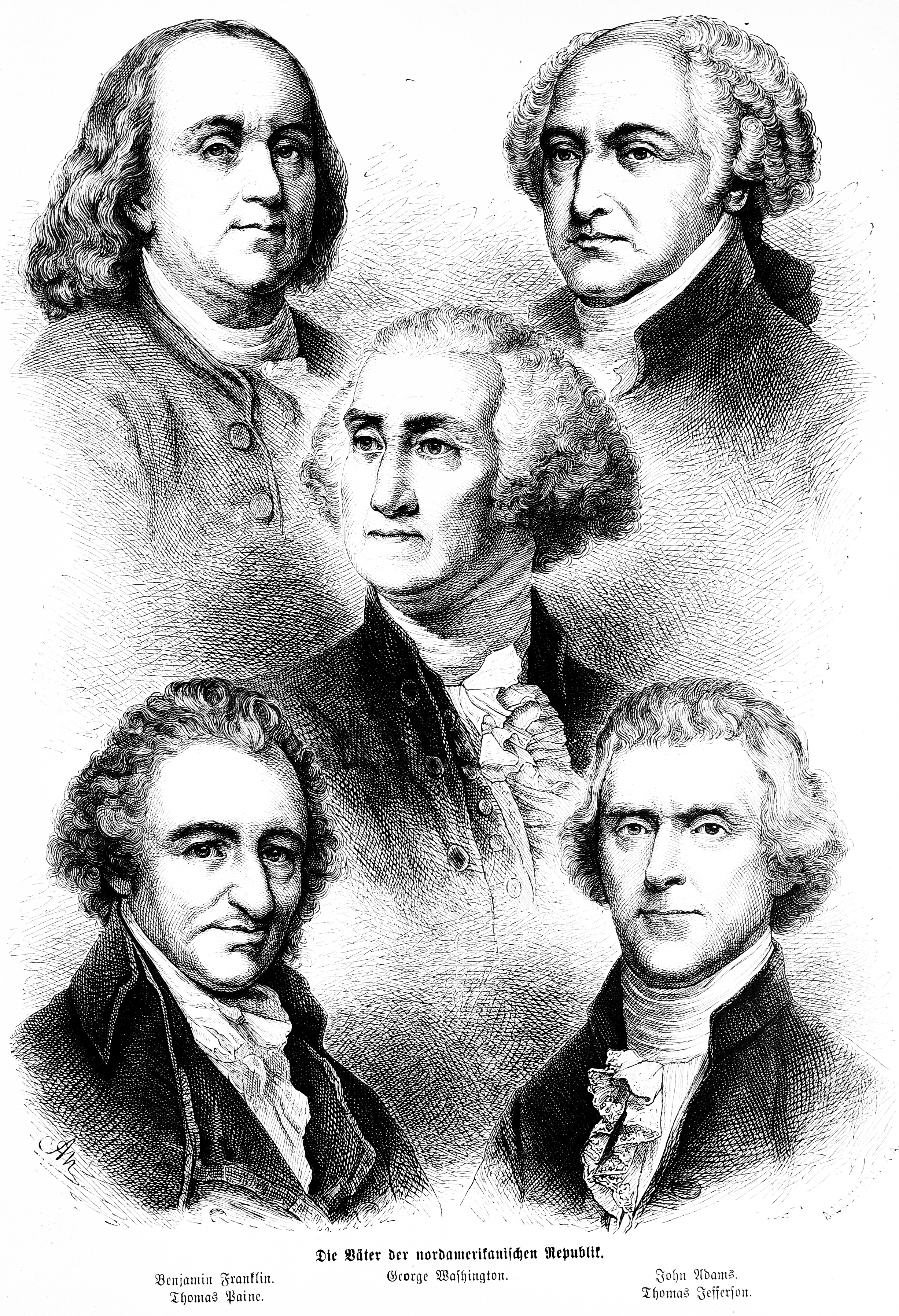 caption: "Die Väter der nordamerikanischen Republik. Benjamin Franklin. George Washington. John Adams. Thomas Paine. Thomas Jefferson."